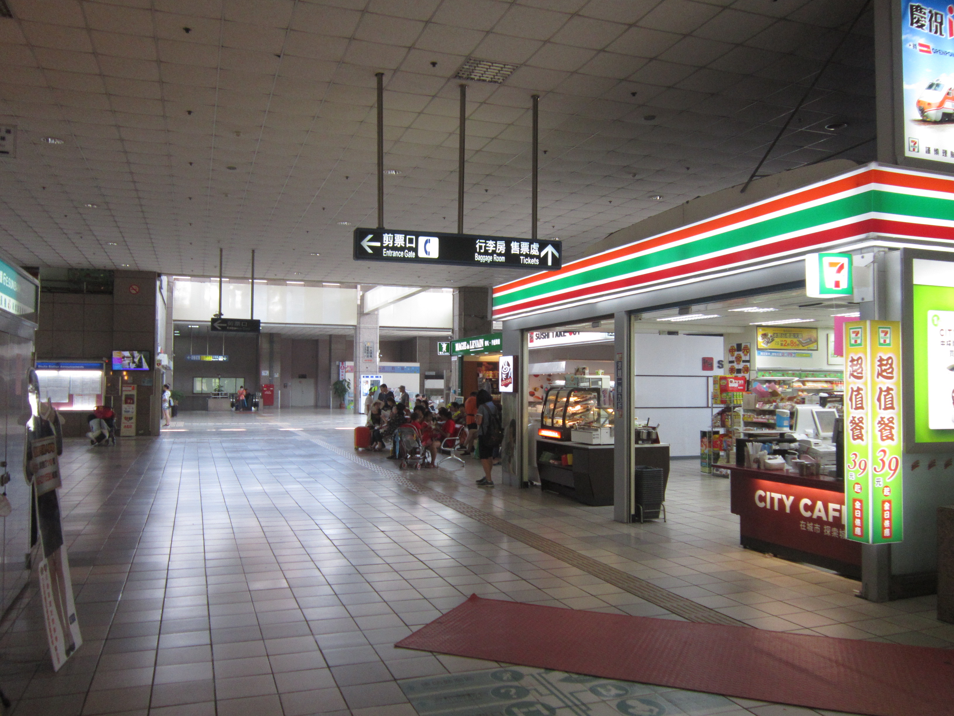 TRA_Shulin Station_hall